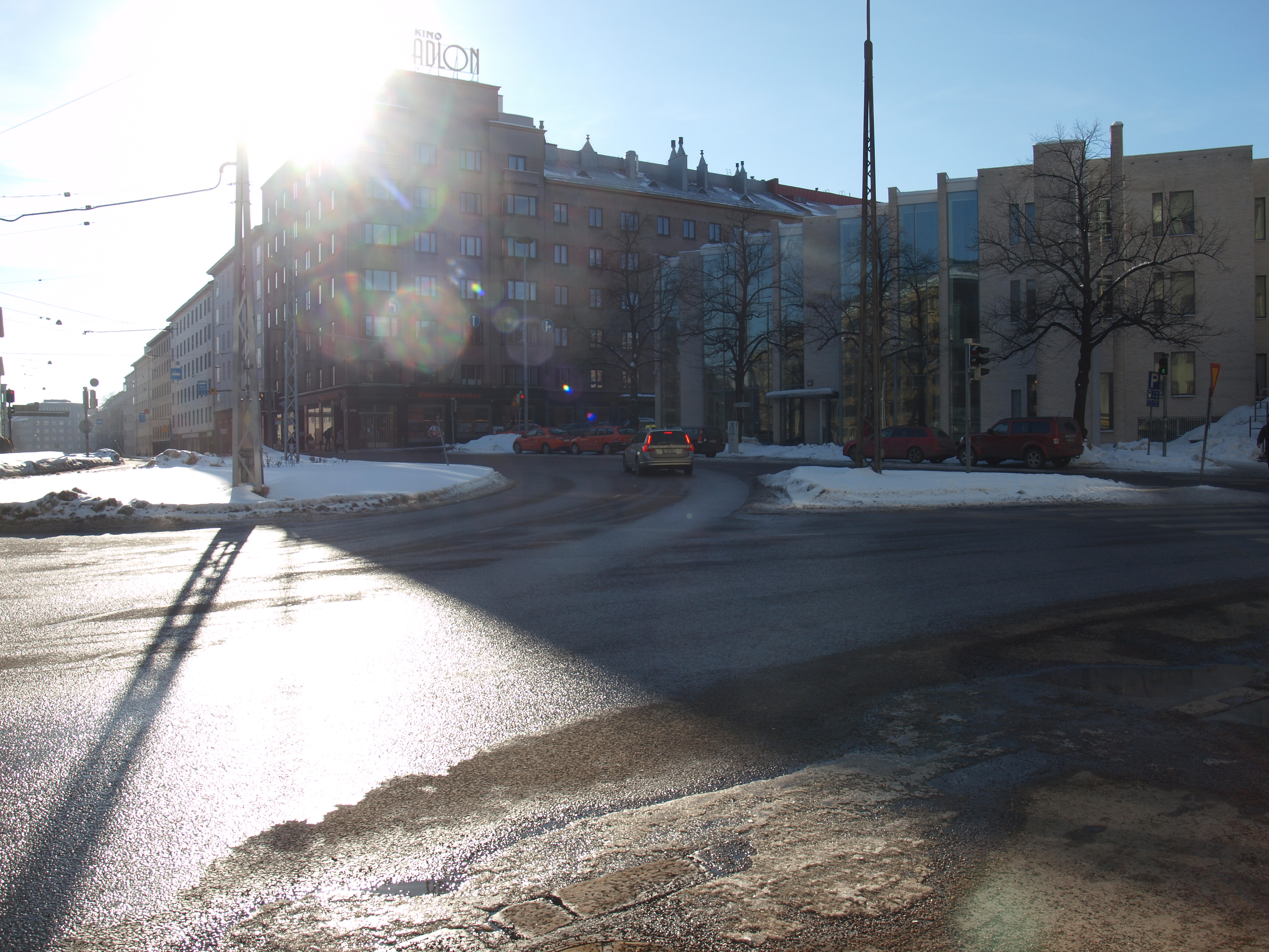 Runeberginkatu, Taka-Töölö, Helsinki, Finland, near the Töölö market square, at about 13:50 in the middle of a very sunny February Monday. The photograph has been deliberately overexposed by +1 EV to diminish the effect of the bright sun and bring out more detail from the actual scenery.